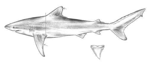 Dusky shark (Carcharhinus obscurus), from Grace, M. (2001). "Field Guide to Requiem Sharks (Elasmobranchiomorphi: Carcharhinidae) of the Western North Atlantic". NOAA Technical Report NMFS 153.